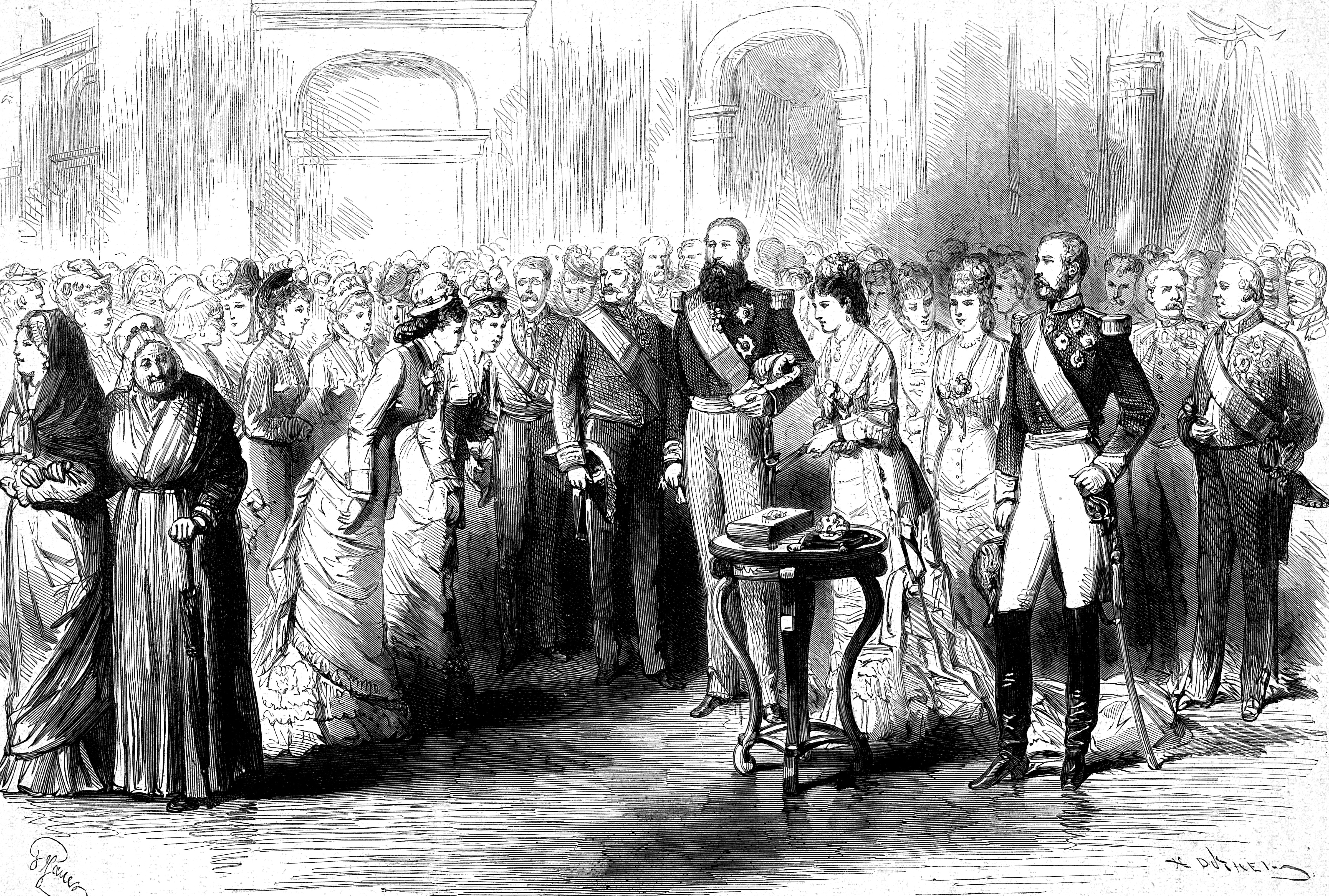 Presentation of the gift to the Queen during the twenty-fifth wedding anniversary of King Leopold II of Belgium and Queen Marie Henriette, Royal Palace (Brussels), 22 August 1878.